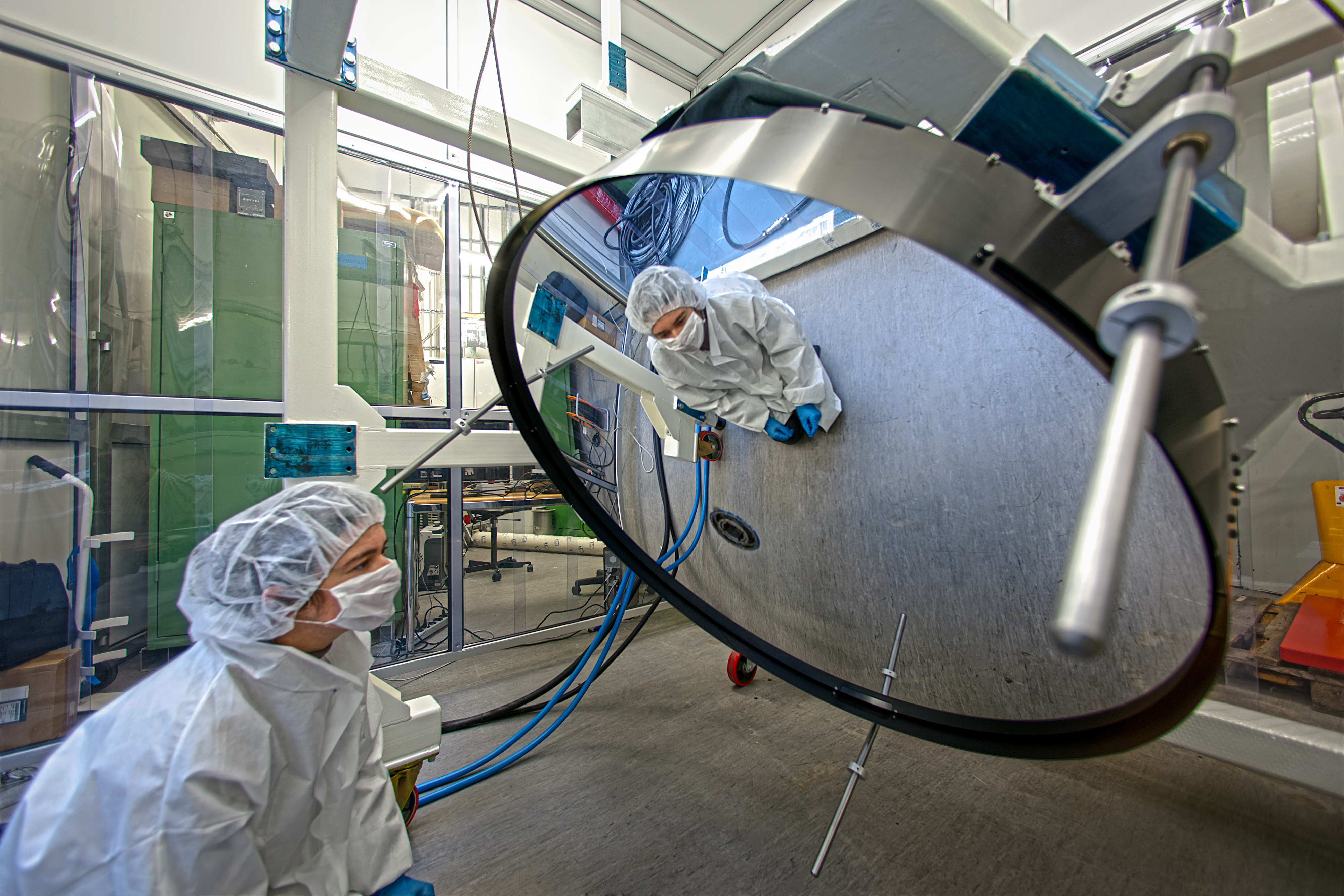 This remarkable deformable thin-shell mirror has been delivered to ESO at Garching, Germany and is shown undergoing tests. It is 1120 millimetres across but just 2 millimetres thick, making it much thinner than most glass windows. The mirror is very thin so that it is flexible enough for magnetic forces applied to it to alter the shape of its reflective surface. When in use, the mirror's surface will be constantly changed by tiny amounts to correct for the blurring effects of the Earth’s atmosphere and so create much sharper images. The new deformable secondary mirror (DSM) will replace the current secondary in one of the VLT’s four Unit Telescopes. The entire secondary structure includes a set of 1170 actuators that apply a force on 1170 magnets glued to the back face of the thin shell. Sophisticated special-purpose electronics control the behaviour of the thin shell mirror. The reflecting surface can be deformed up to a thousand times per second by the action of the actuators. The complete DSM system was delivered to ESO by the Italian companies Microgate and ADS in December 2012 and concludes eight years of sustained development efforts and manufacturing. This is the largest deformable mirror ever produced for astronomical purposes and is the latest of a long line of such mirrors. The extensive experience of these contractors shows in the high performance of the system and its reliability. The installation on the VLT is scheduled to start in 2015. The shell mirror (ann12015) itself was manufactured by the French company REOSC. It is a sheet of ceramic material that has been polished to a very accurate shape. The manufacturing process starts with a block of Zerodur ceramic, provided by Schott Glass (Germany) that is more than 70 millimetres thick. Most of this material is ground away to create the final thin shell that must be carefully supported at all times as it is extremely fragile.